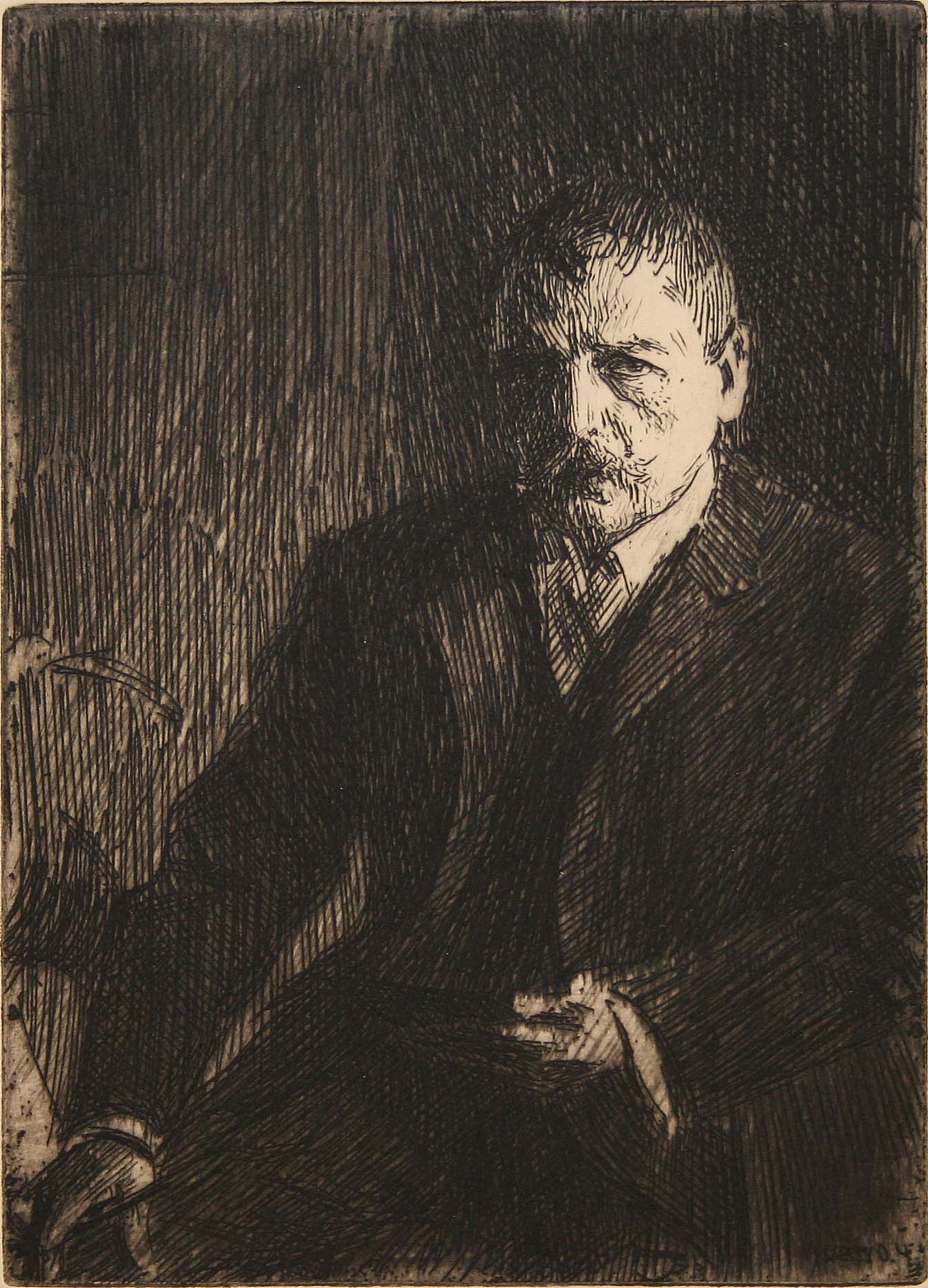 Självporträtt 1904 -I (1904) etsning, 175x125 mm Asplund 180, ZG180